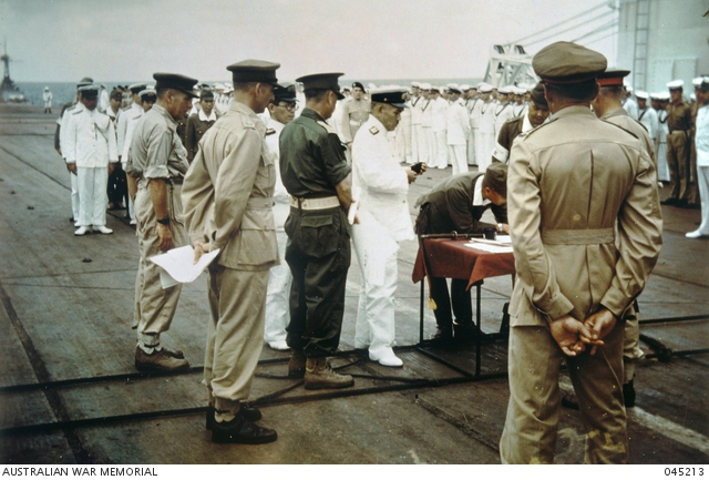 Lieutenant General V.A.H. Sturdee, General Officer Commanding First Army talking to General H. Imamura, Commander Eighth Area Army, at the surrender ceremony on board the aircraft Carrier HMS Glory. The surrender of all Japanese forces in New Guinea, New Britain and The Solomons, by General H. Imamura, Commander Eighth Area Army, and Vice Admiral J. Kusaka, Commander South East Area Fleet, was accepted by Lieutenant General V.A.H. Sturdee, General Officer Commanding First Army